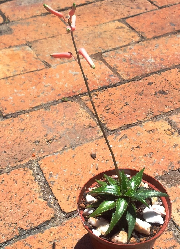 Young Aloe jucunda in flower